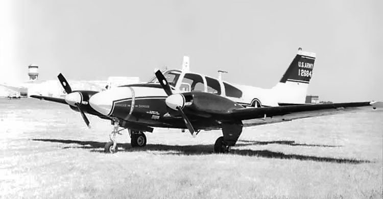 The T-42 Cochise, public domain image from redstone.army.mil